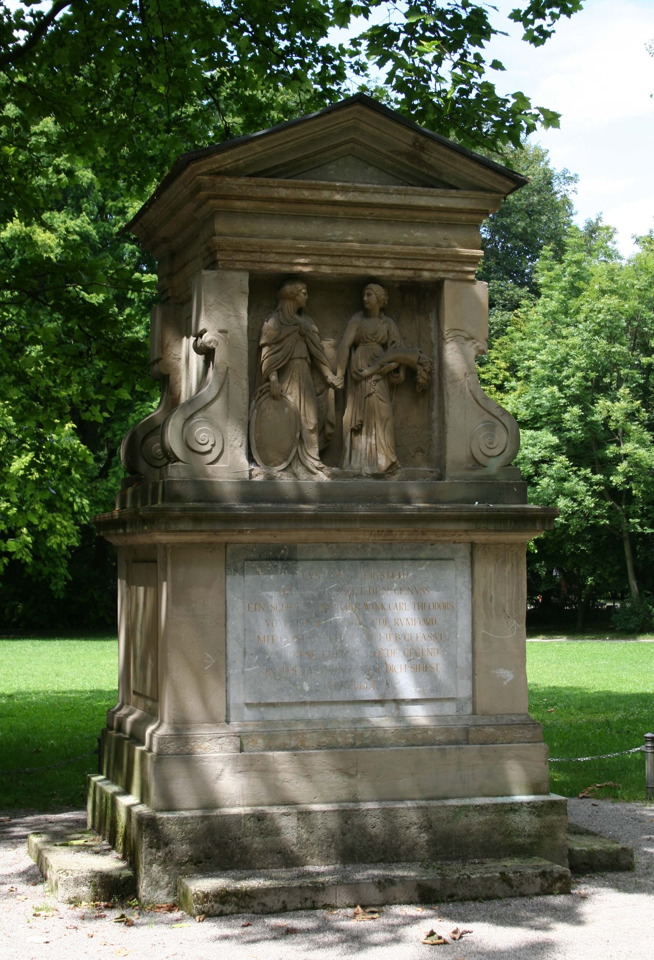 The Rumford-Denkmal (Rumford Monument) in the English Garden